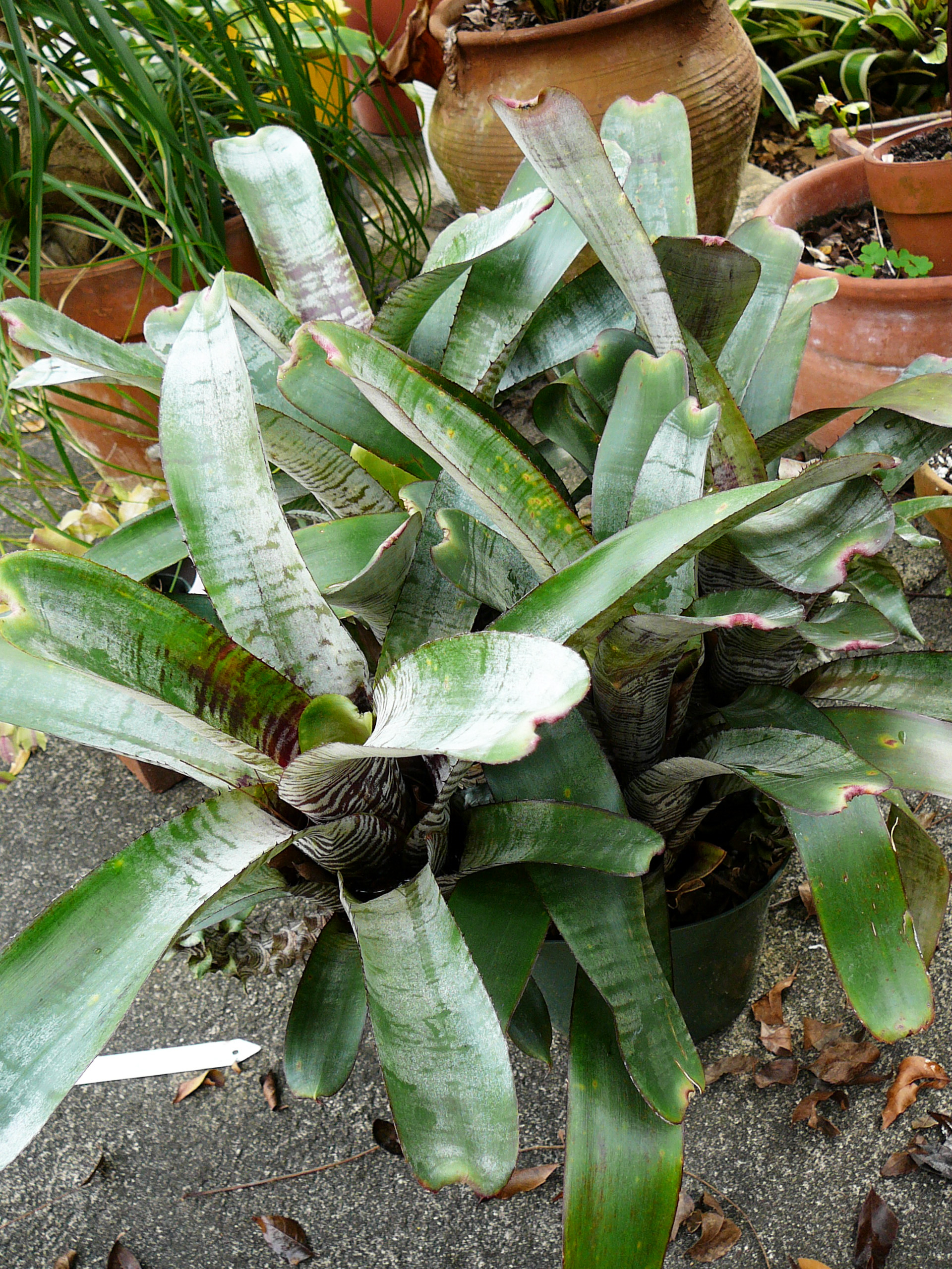 Aechmea Nudicaulis Parati - a clone of Aechmea Nudicaulis from Brazil